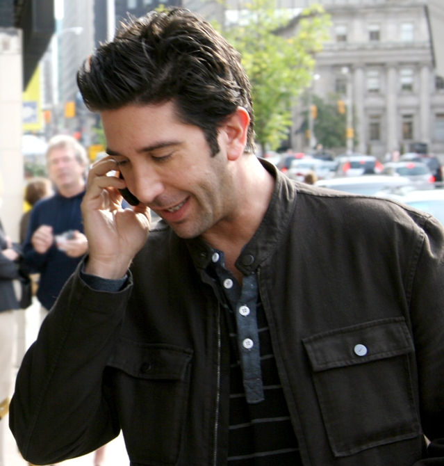 David Schwimmer at the 2007 Toronto International Film Festival.